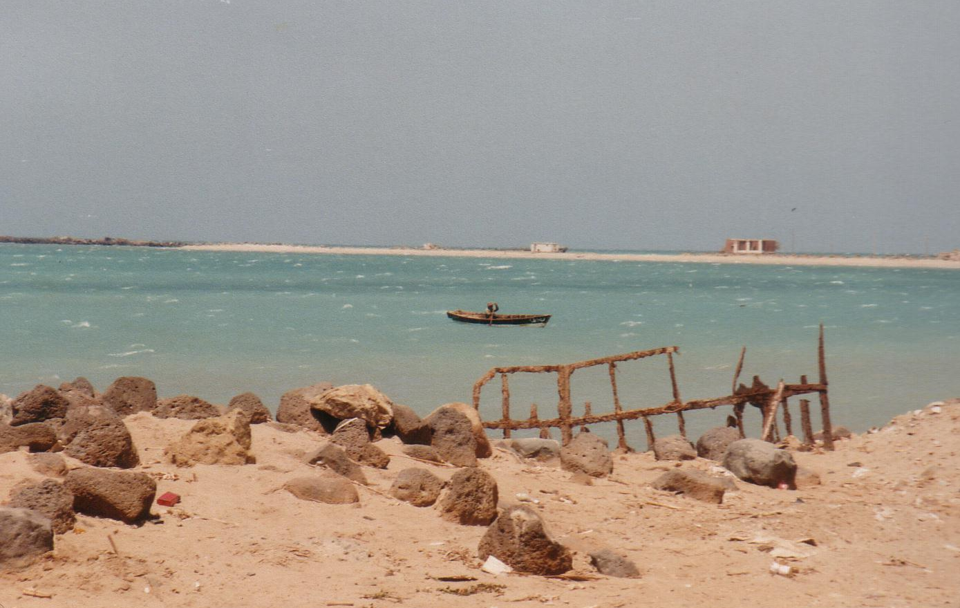 Shore of Mocha, Yemen, 1996